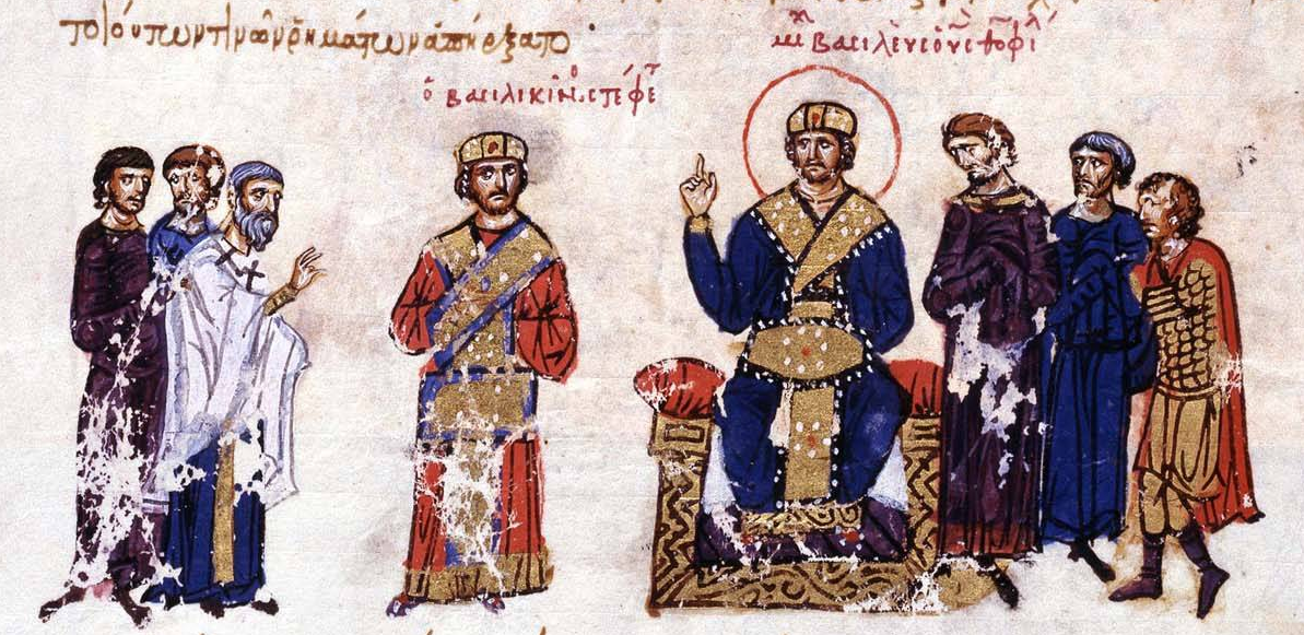 Emperor Michael III crowns Basilikinos as co-emperor, 866